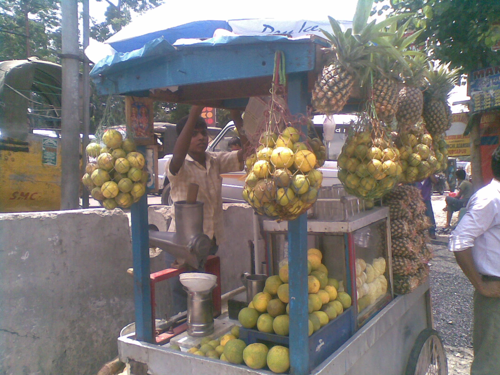 This photo depicting a road side fruit juice stall.